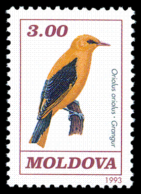 Stamp of Moldova